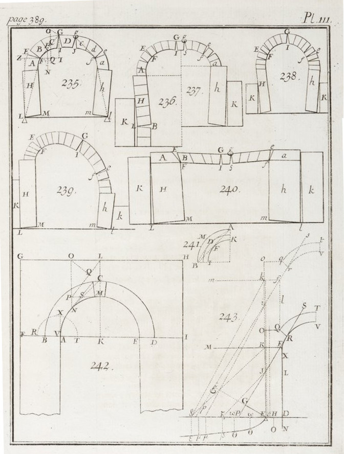 Fréziers' review of A. Danyzy's experiments of arch thrust and arch failure modes (Acad. Montpellier, 1732)